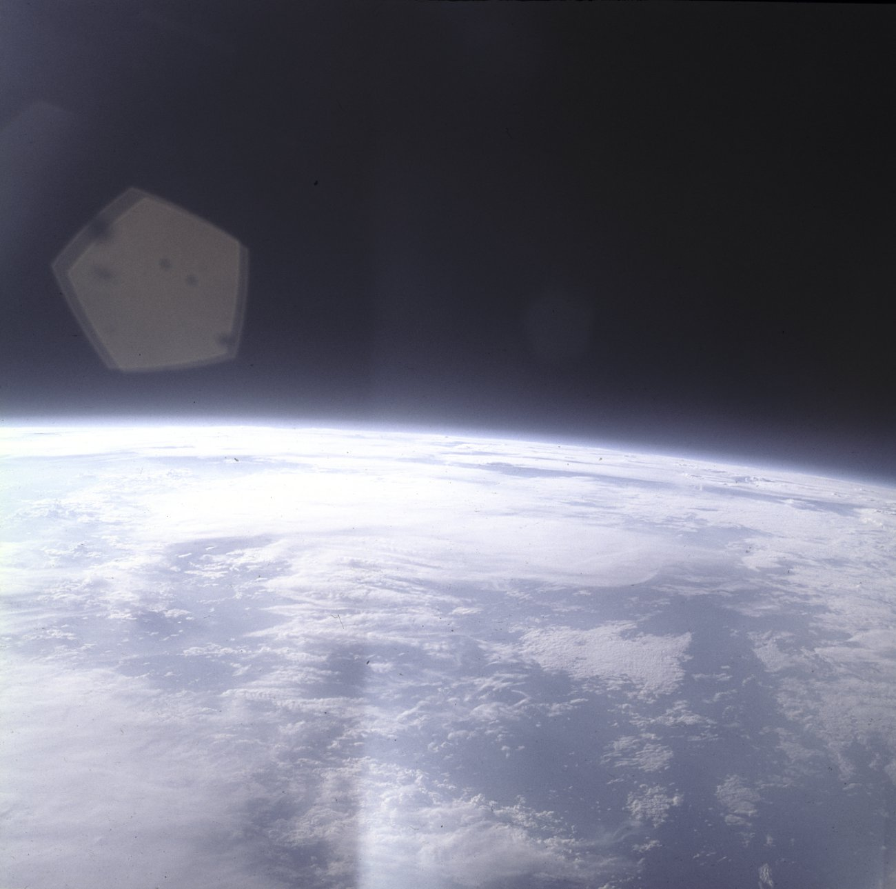 Western horizon over South America taken during the sixth orbit pass of the Mercury-Atlas 8 mission by Astronaut Walter M. Schirra with a hand held camera.